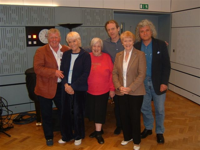 BBC Radio 4 presenting "The Reunion", focussing on EastEnders. From left to right, Jonathan McLeish, an original EastEnders casting director, Wendy Richards (Pauline Fowler), Anna Wing (Lou Beale), Leslie Grantham (Den Watts), Sue MacGregor, presenter of "The Reunion" and one of the shows first writers Bill Lyons, far right.